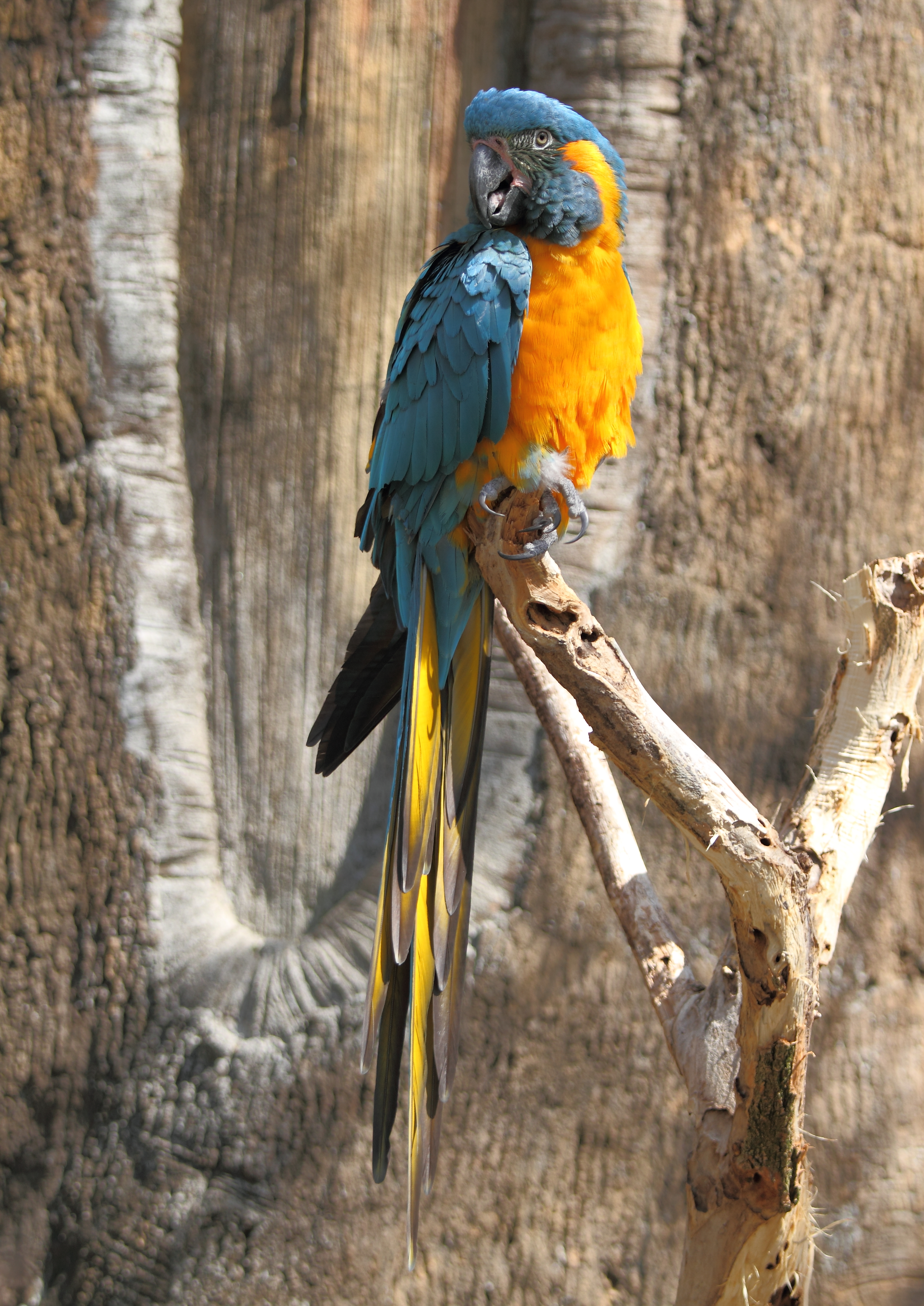 A Blue-throated Macaw at Cincinnati Zoo, Cincinnati, Ohio, USA. Photo by Greg Hume